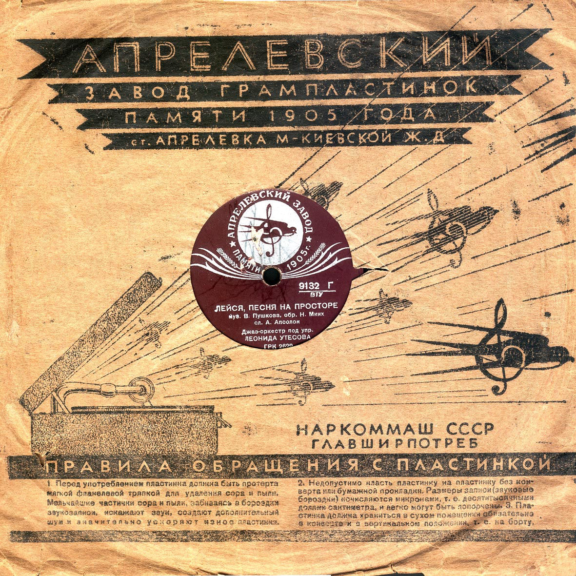 Label and sleeve of a record produced by Aprelevsky zavod.